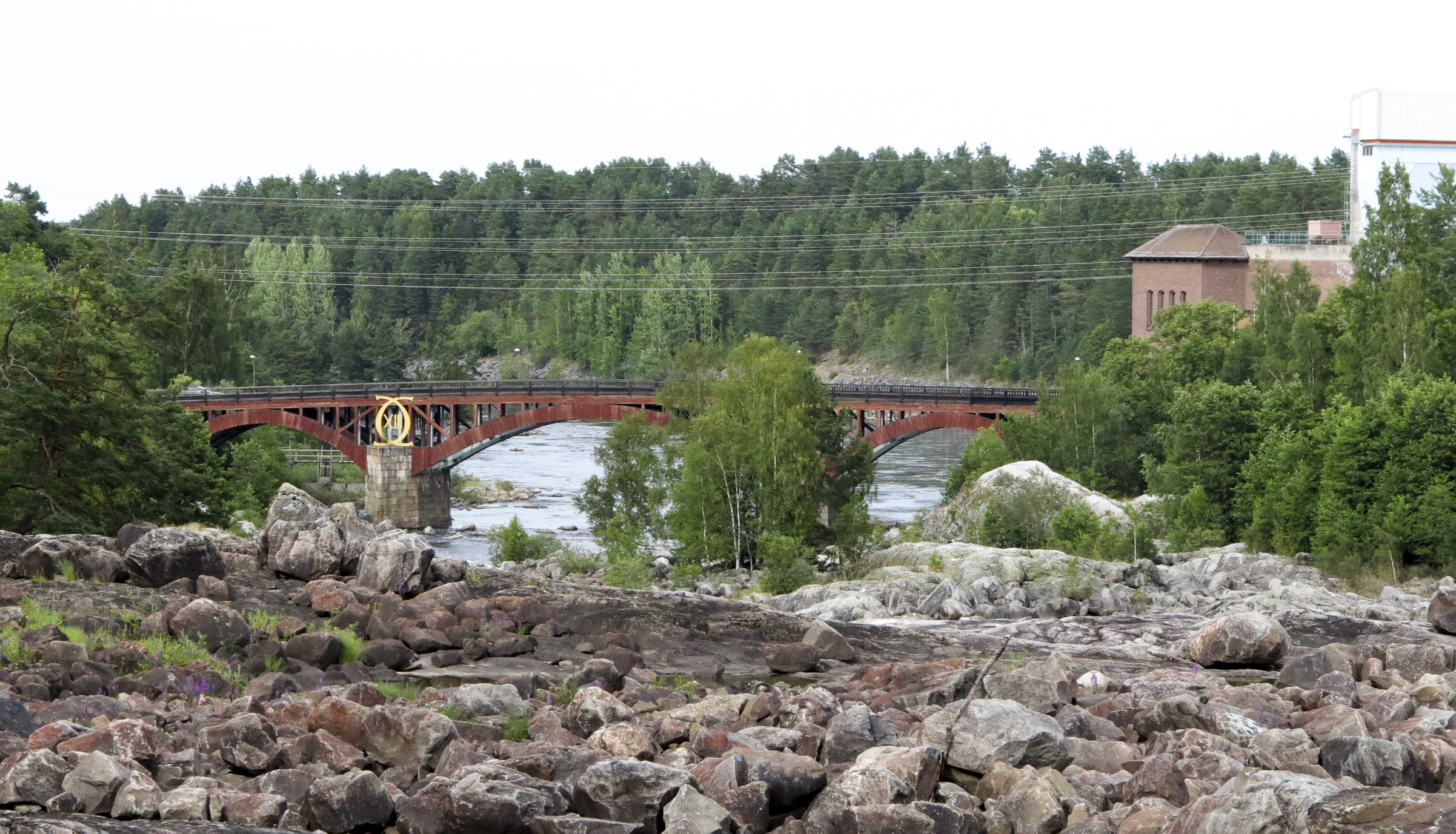 Älvkarleby, Carl XIII bridge. Älvkarleby, Sweden